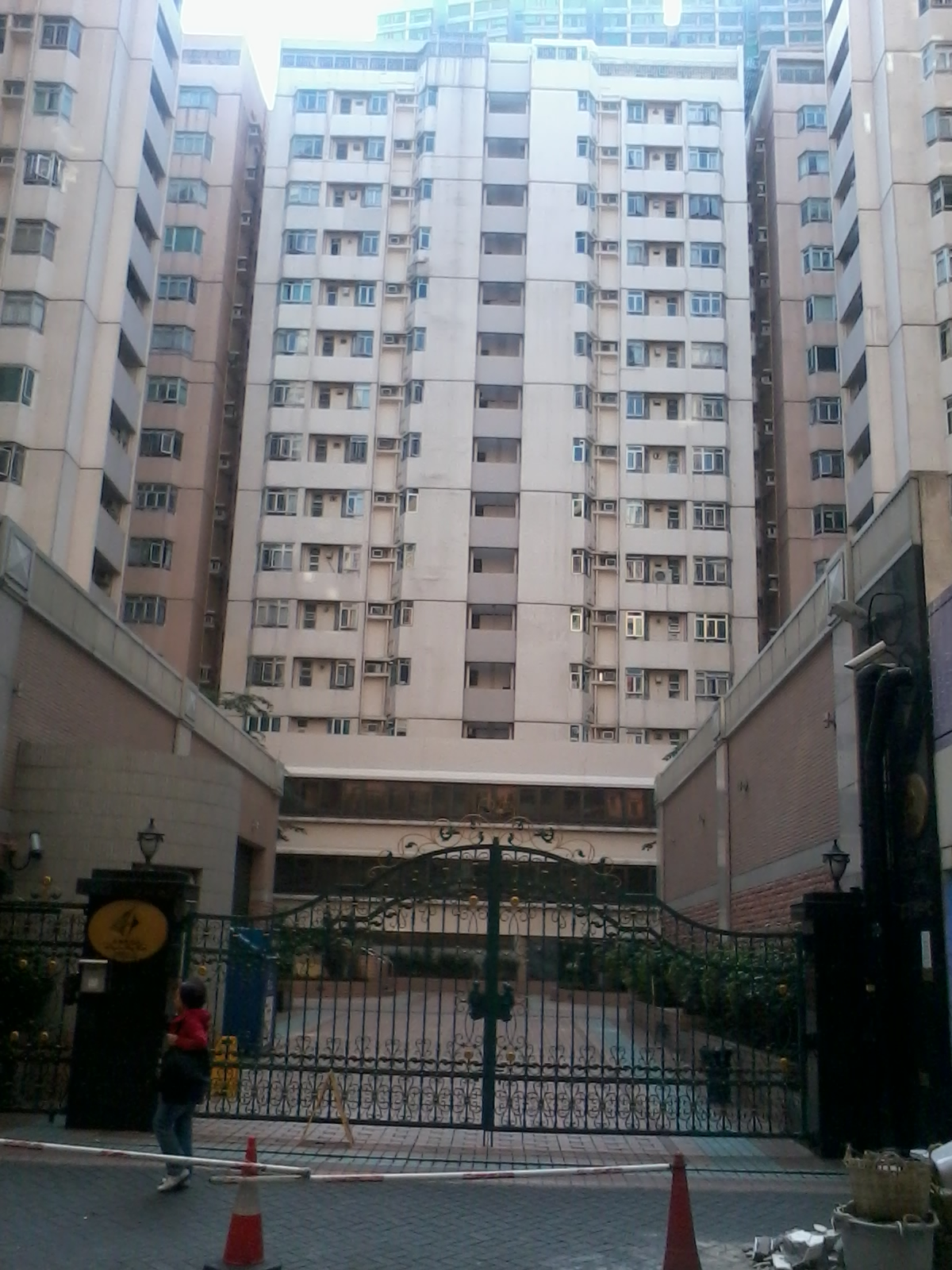 紅磡必嘉街108號 - 紅磡灣中心, Hung Hom Bay Centre, 108 Baker Street, Hung Hom, Hong Kong